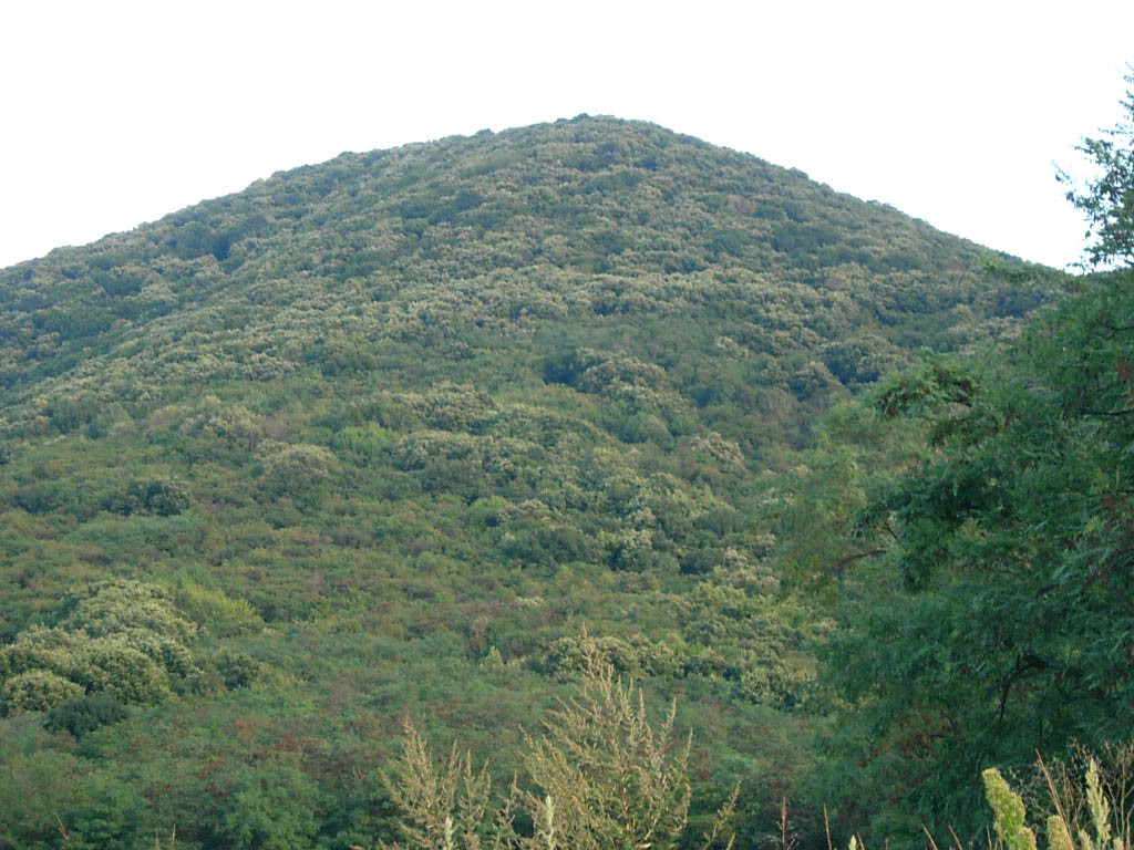 Gudurički Vrh - The highest point in Vojvodina near Vršac.